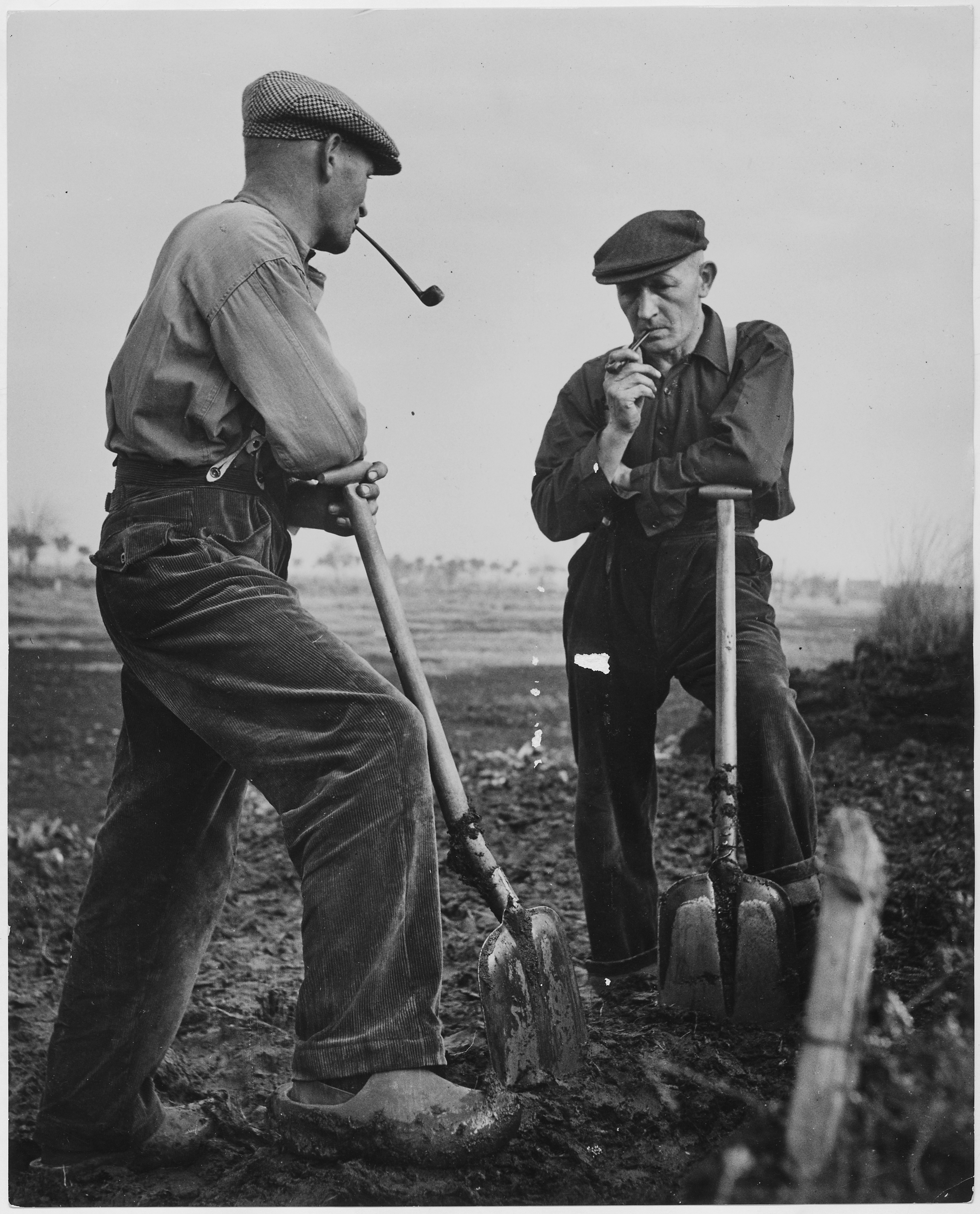 Netherlands. [An additional 480 square miles is being reclaimed with the aid of Marshall Plan counterpart funds. This area, now part of a vast sea indenting the coastline of Holland, the Zuyder Zee, is being fenced with dykes. In five or six years it will be productive farmland.], ca. 1948 - ca. 1955